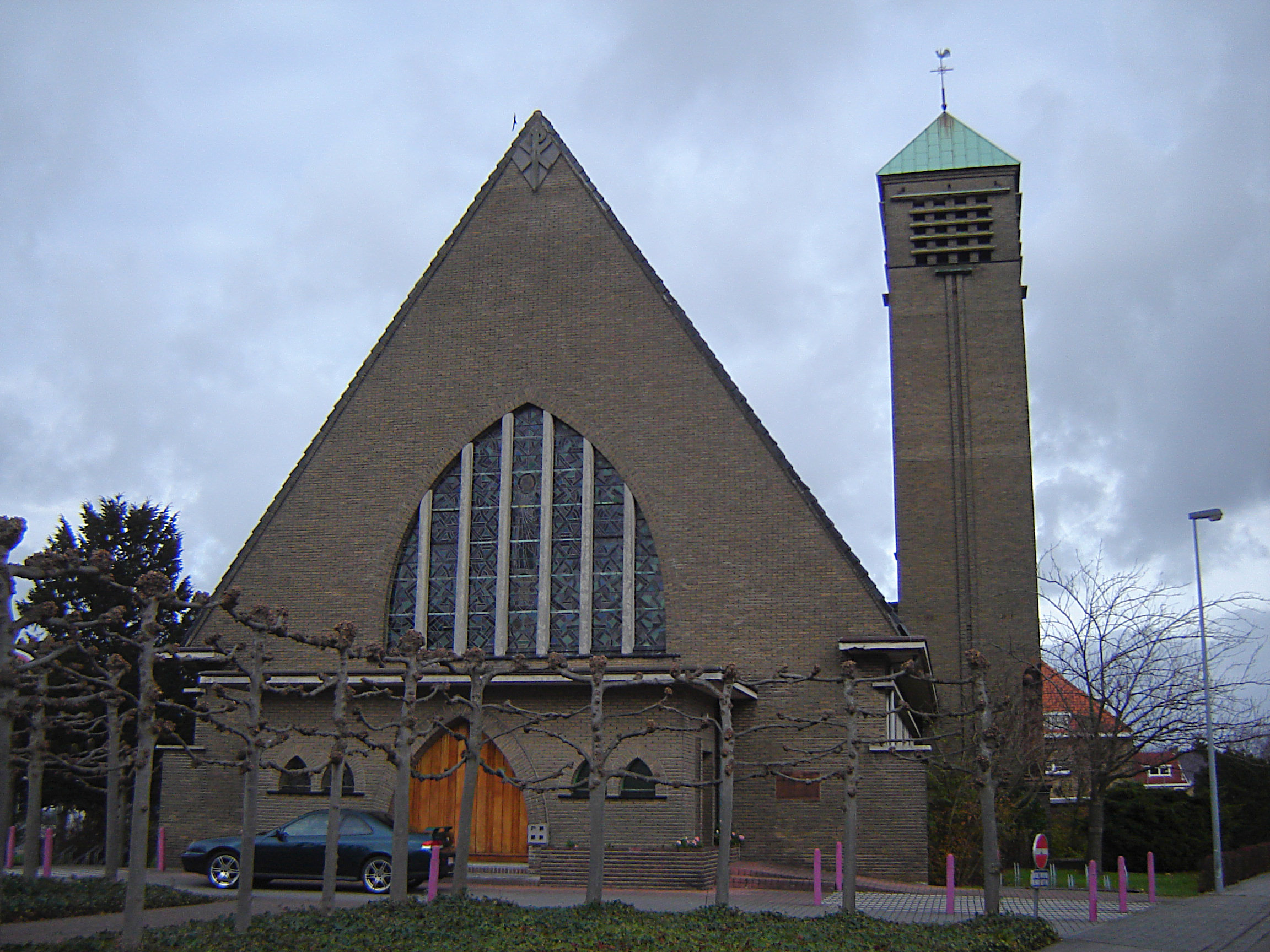 Church of Saint Joseph and Saint Christopher in Assebroek. Assebroek, Brugge, West Flanders, Belgium.